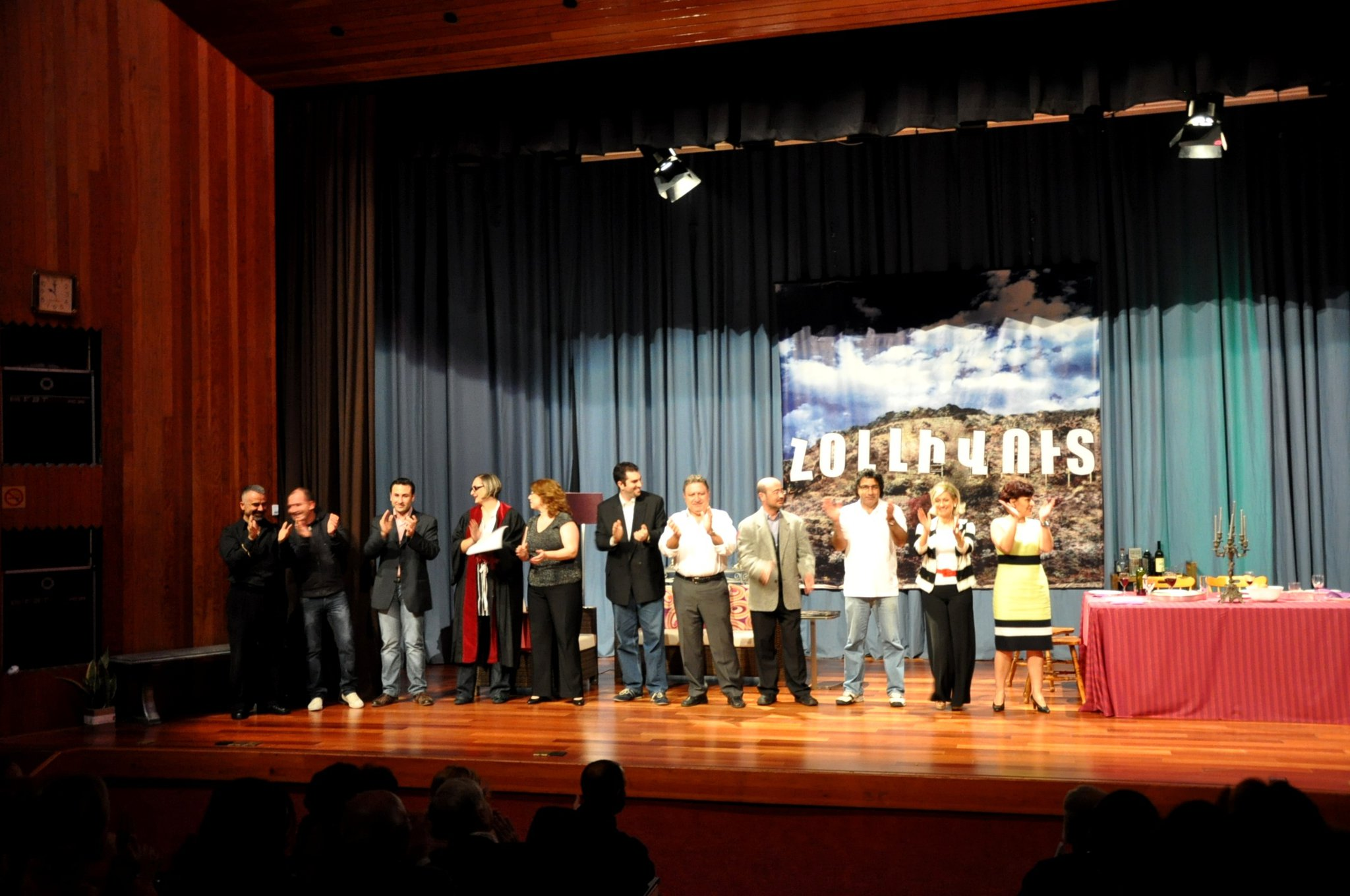 "Timag" theatre company on stage (2011)